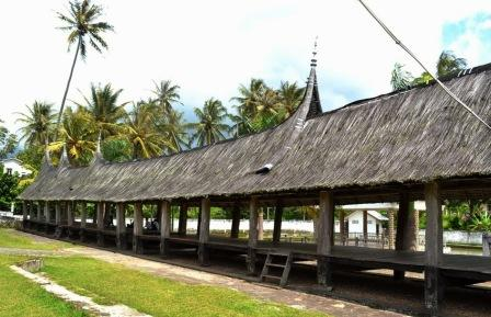 Balairung Sari Tabek